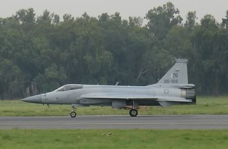 A JF-17 Thunder fighter aircraft taxies towards a runway at a Pakistan Air Force airbase during flight operations. A side view of the aircraft is shown.